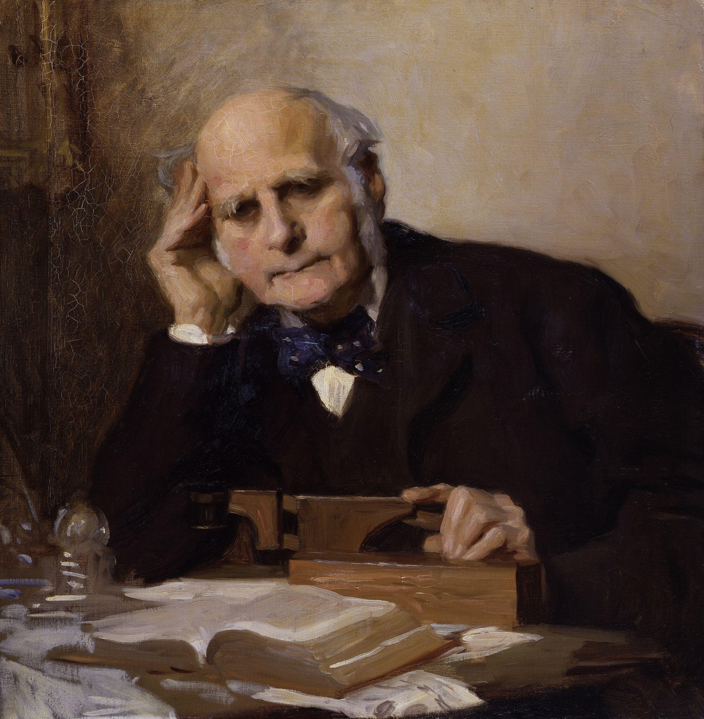 Sir Francis Galton, by Charles Wellington Furse (died 1904), given to the National Portrait Gallery, London in 1954. All images in this batch have been confirmed as author died before 1939 according to the official death date listed by the NPG.